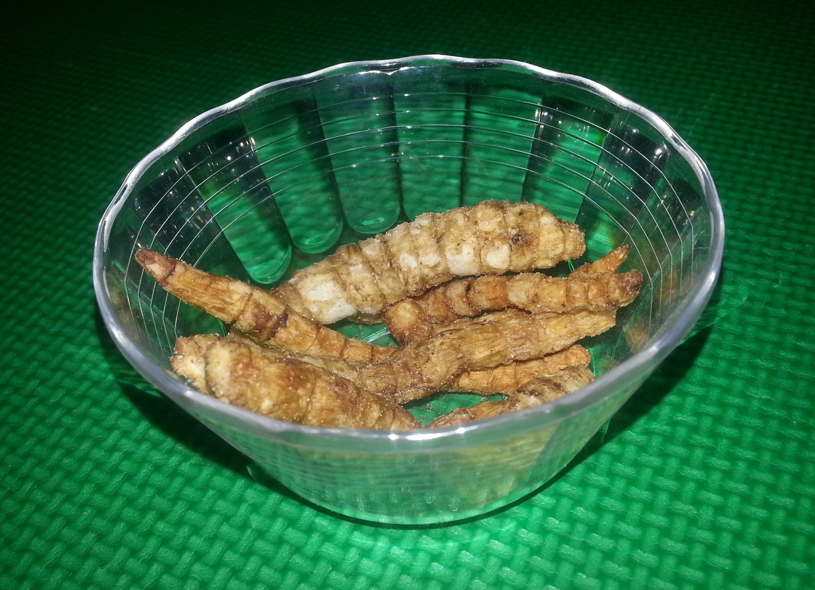 Crackers purchased from the Imperial Herbal restaurant in Singapore.